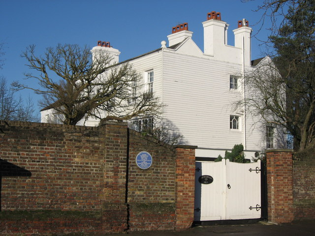 Evergreen Hill, Spaniards Road, NW3. Once the home of Dame Henrietta Barnett and Canon Samuel Barnet - see 1131493. The house can also be seen in 1090081.